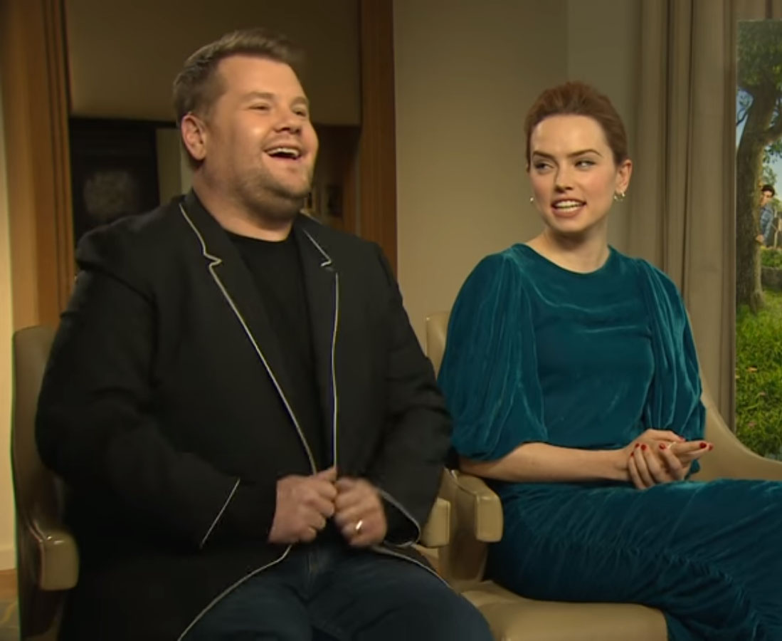 James Corden and Daisy Ridley for an interview at MTV International in 2018